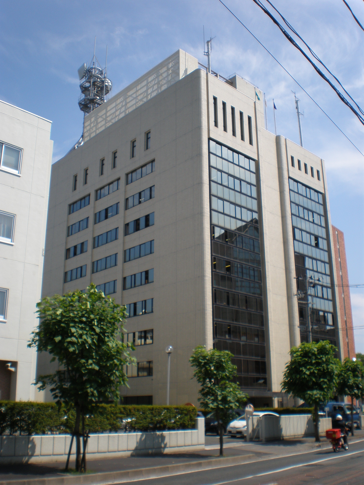 Iwate Prefectural Police Department (Morioka city, Iwate prefecture)